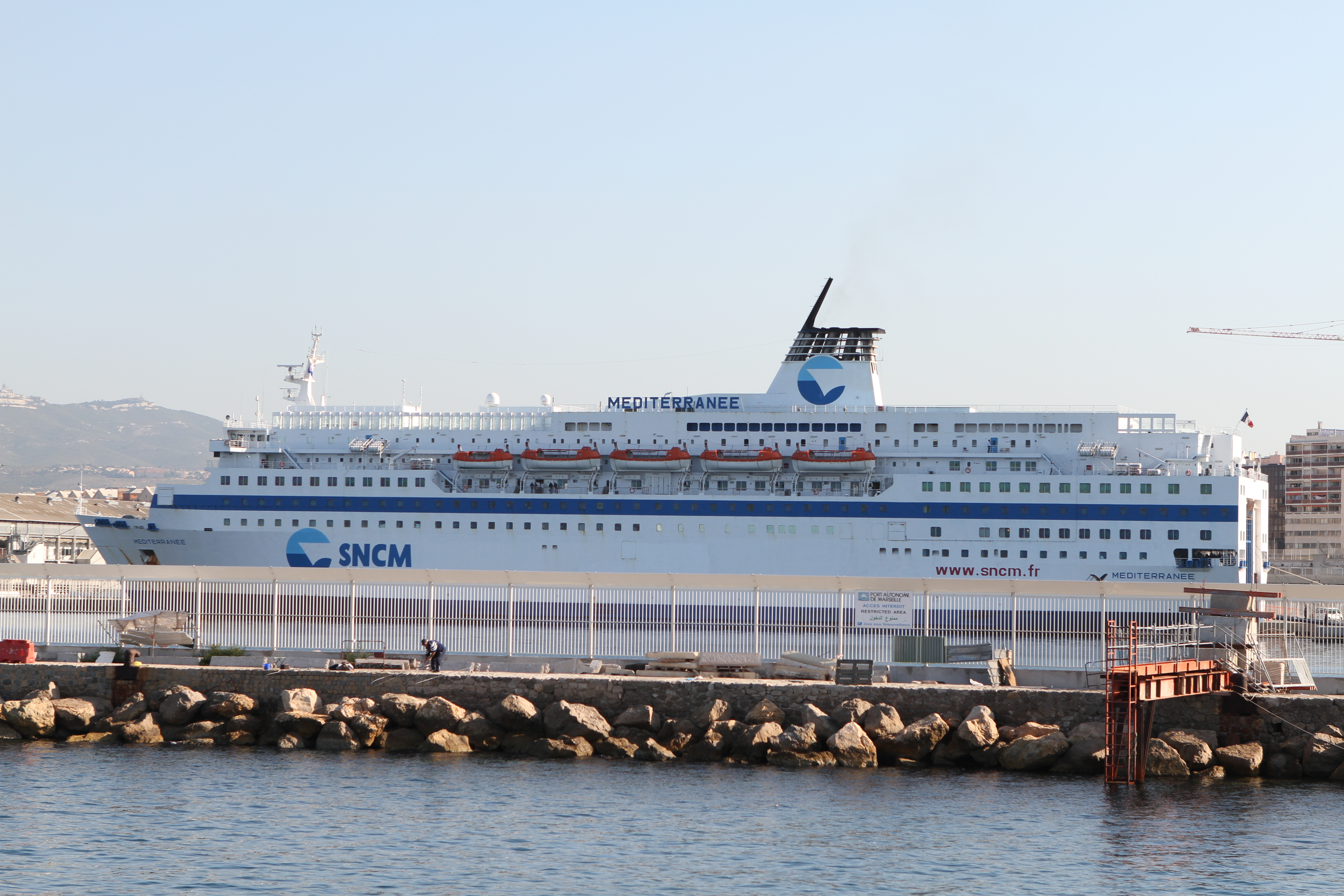 The ferry Méditerranée in the port of Marseille (Bouches-du-Rhône, France)